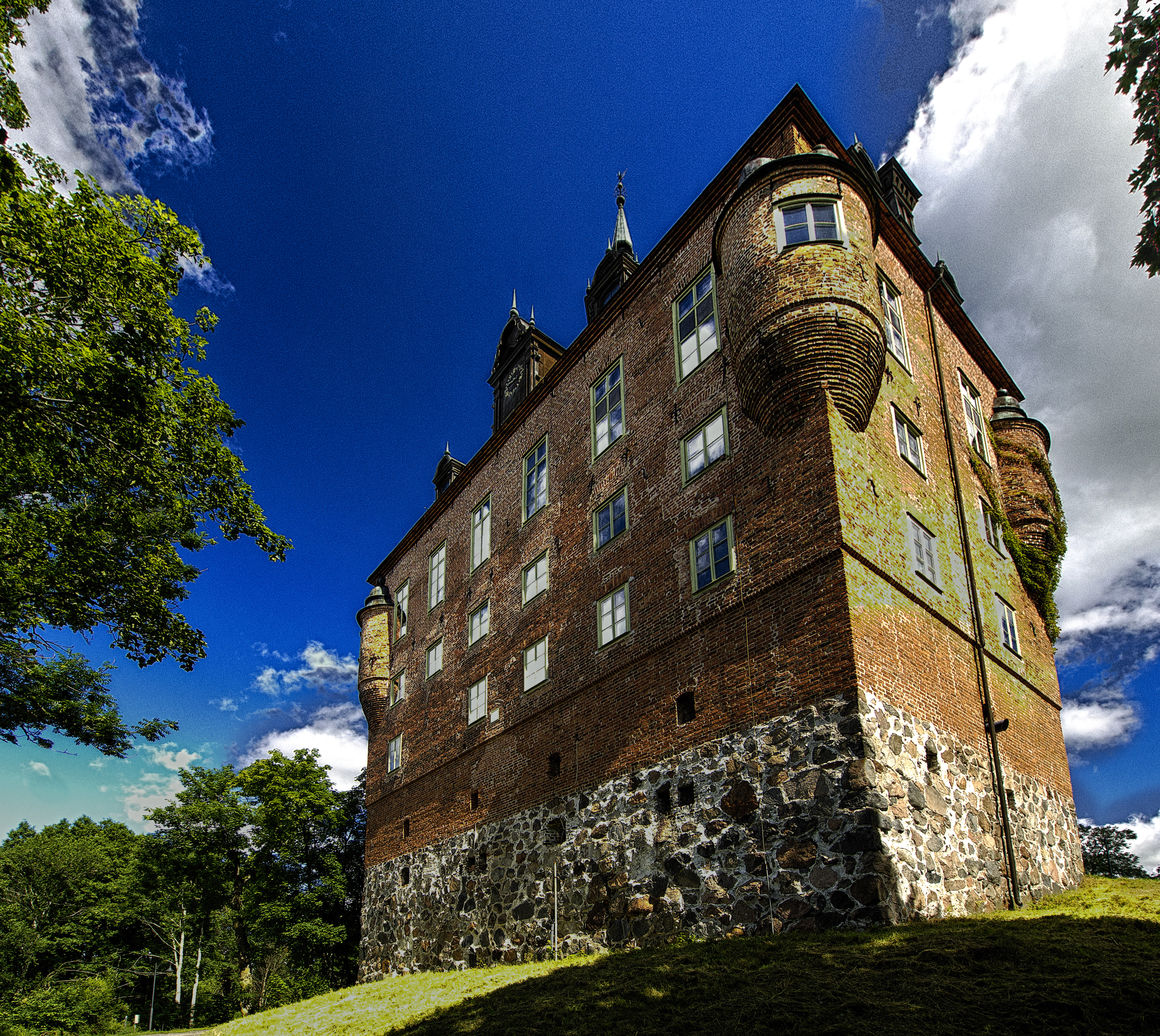 The castle of Wik, Uppsala, Sweden